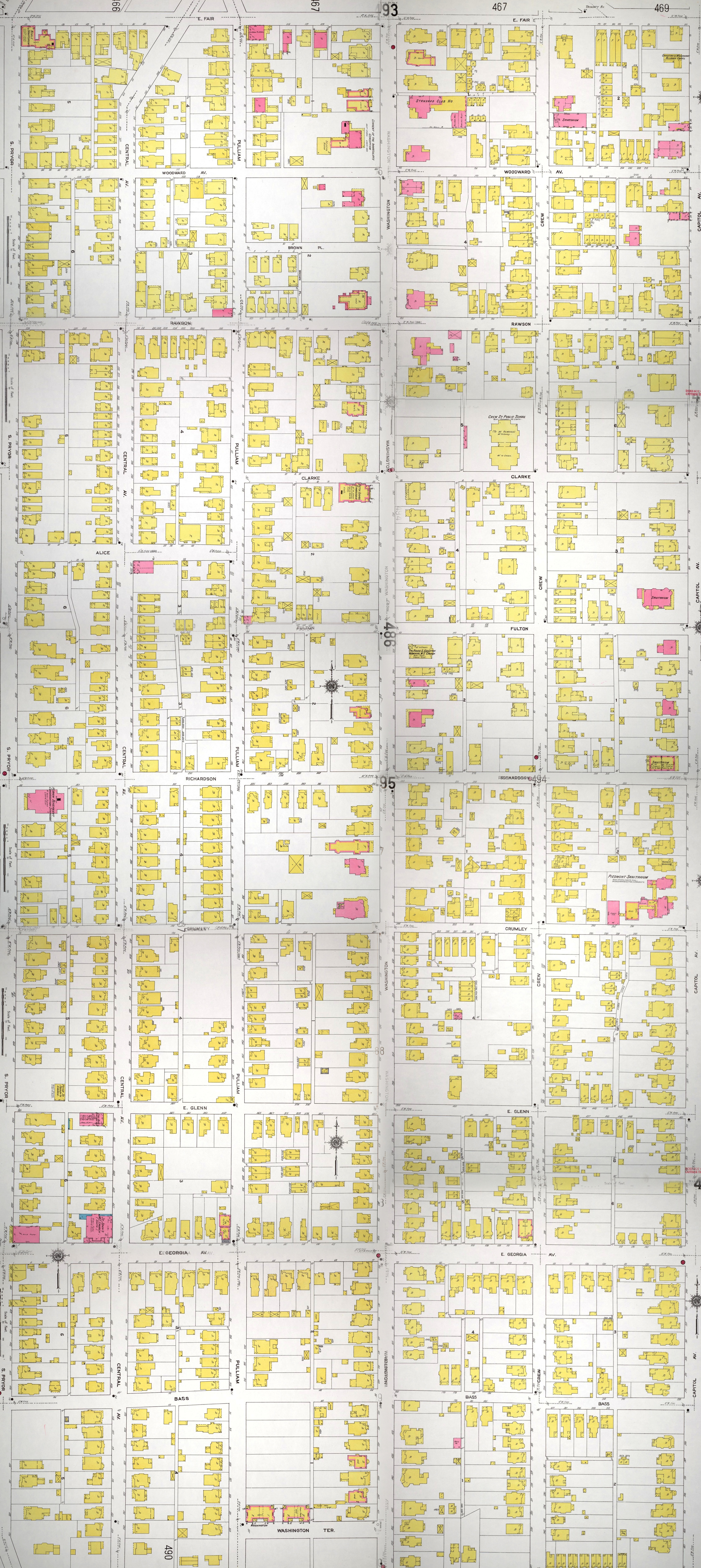 Washington-Rawson district of Atlanta 1911, Sanborn fire maps stitched together